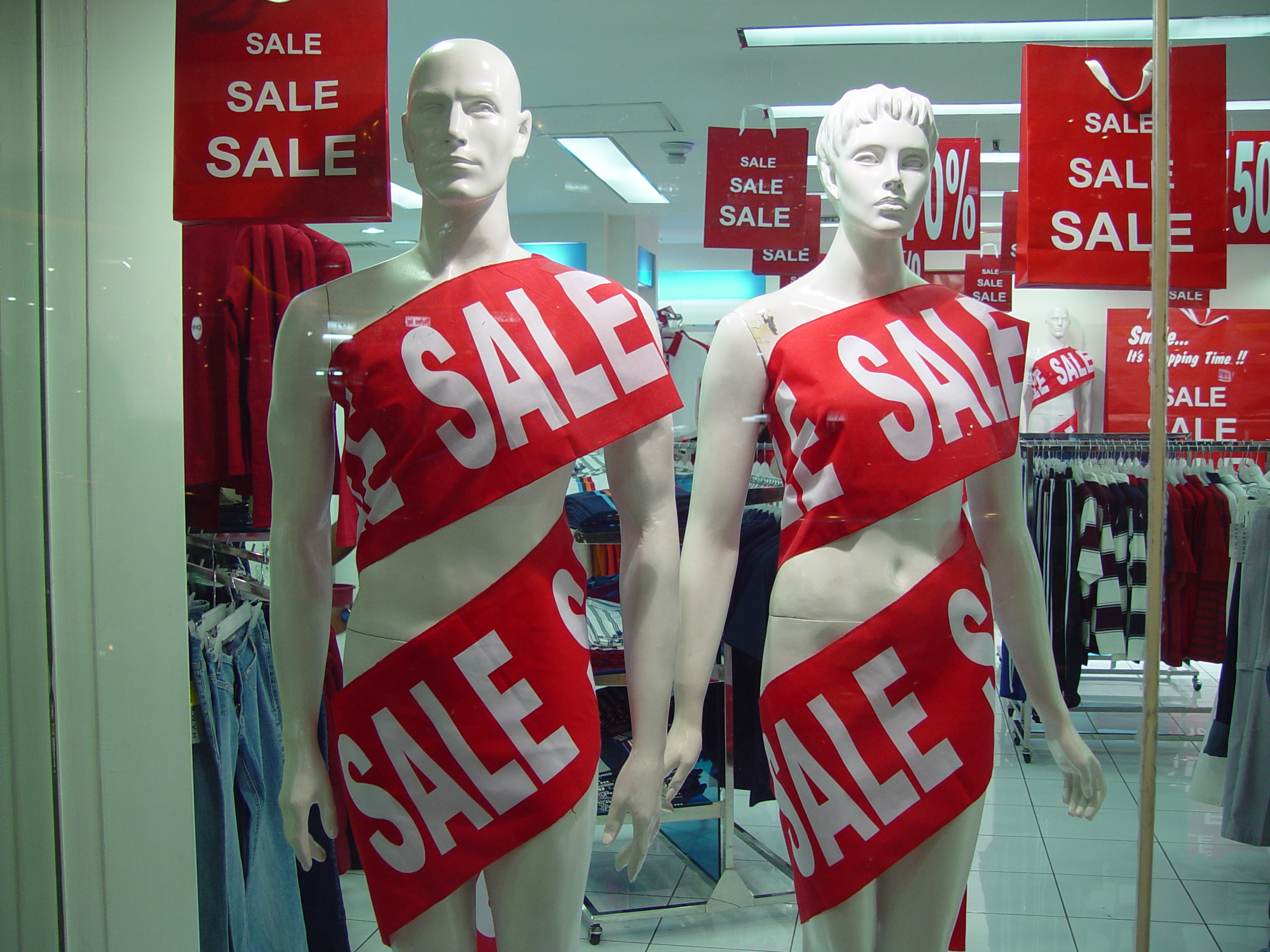 Mall cultural in Jakarta, Indonesia.